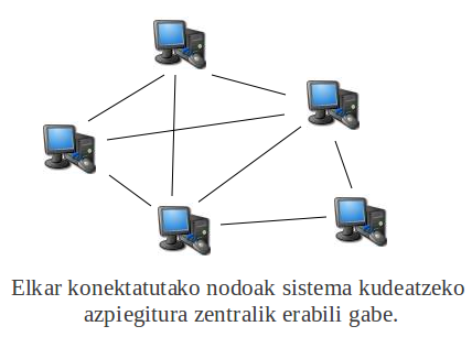 Unstructured P2P system